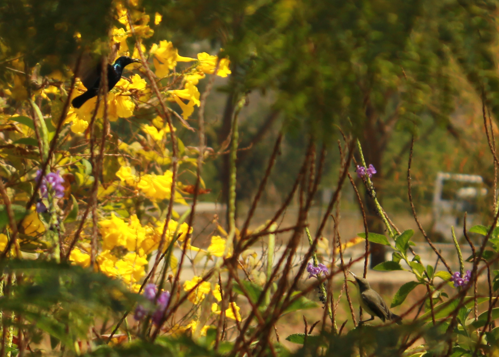 Biodiversity of Pune, India